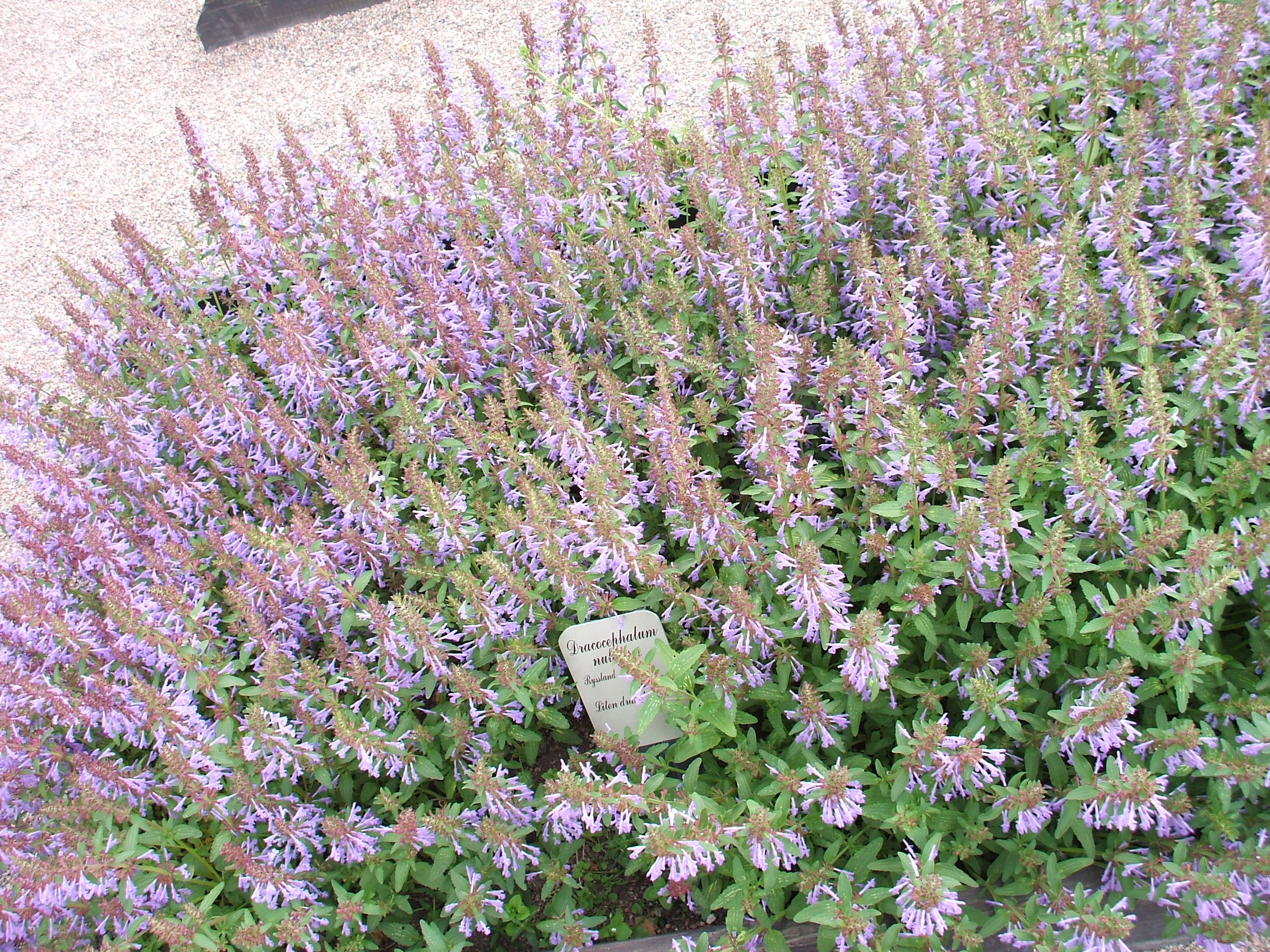 PLAN - The Linnaeus Gardens - Uppsala Dracocephalum nutans Dracocephalum nutans nutans = "nodding" - Dracocephalum is rather obvious.